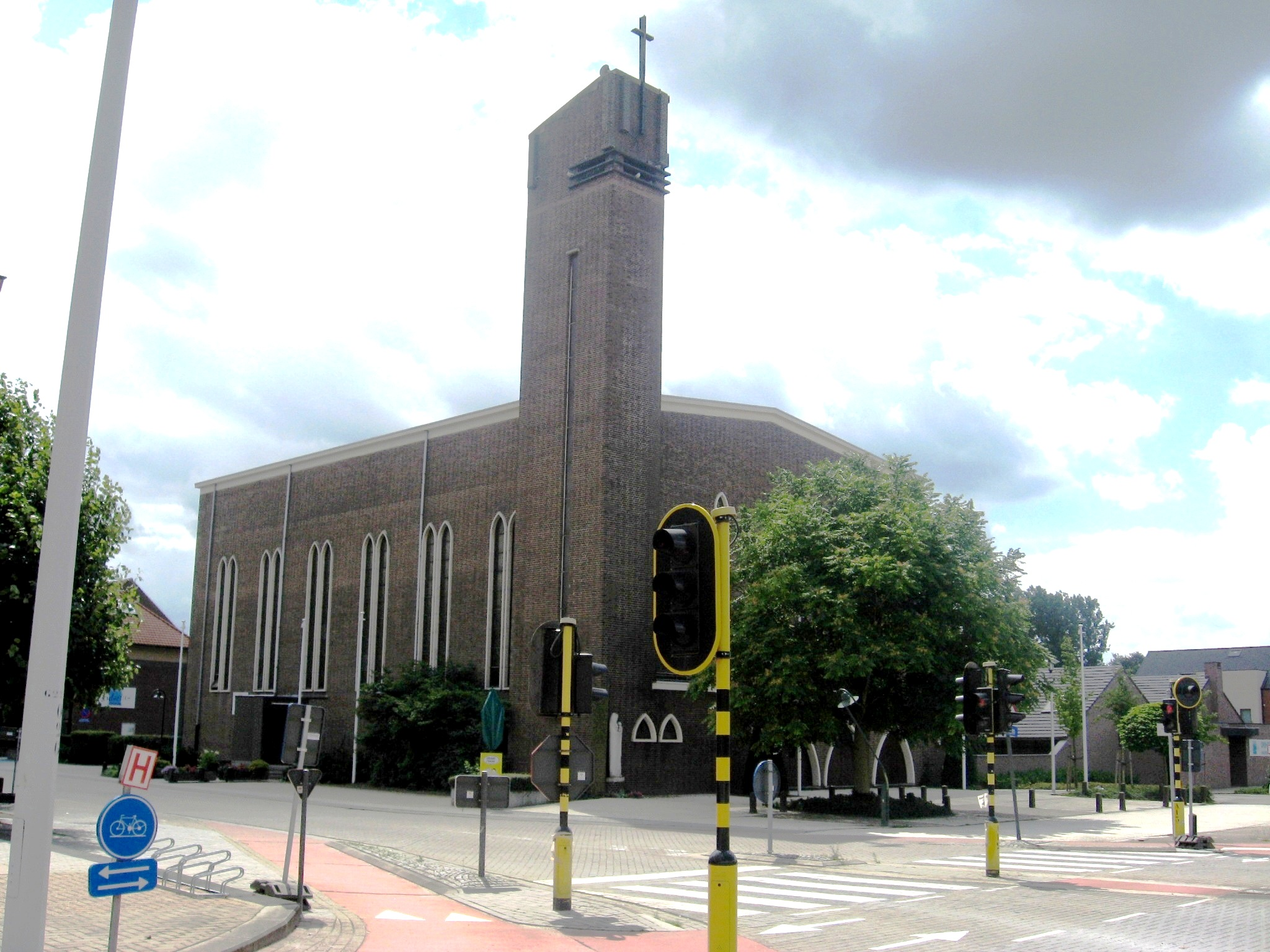 Church of Regina Pacis in Diepenbeek (Lutselus), Limburg, Belgium. This church building collapsed on December 25, 2010.